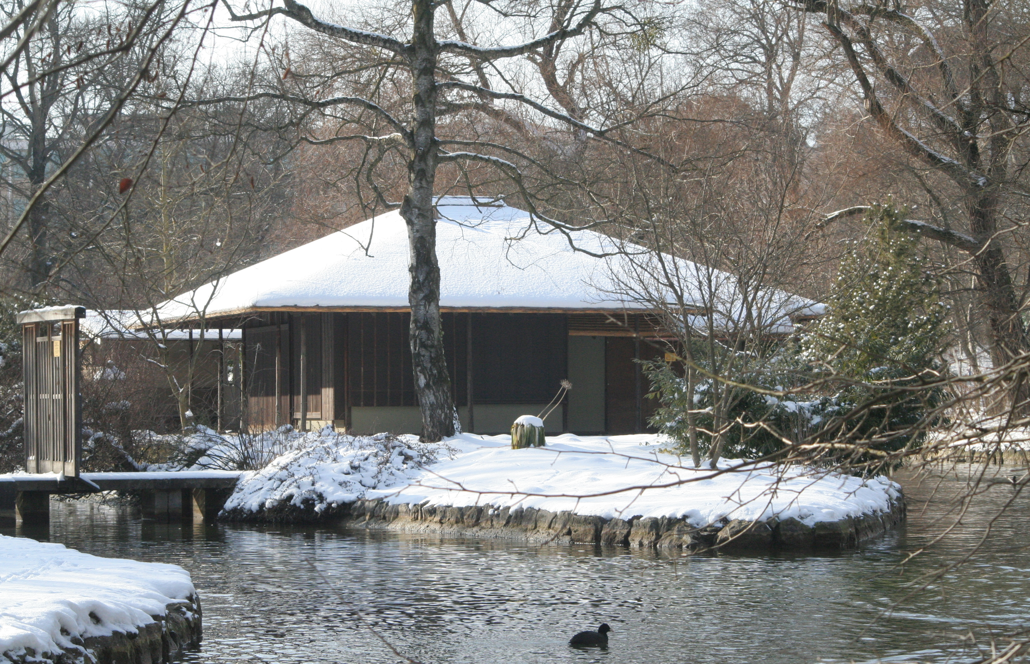 The Japanese Teahouse (Japanisches Teehaus) in the English Garden (Englischer Garten) in Munich